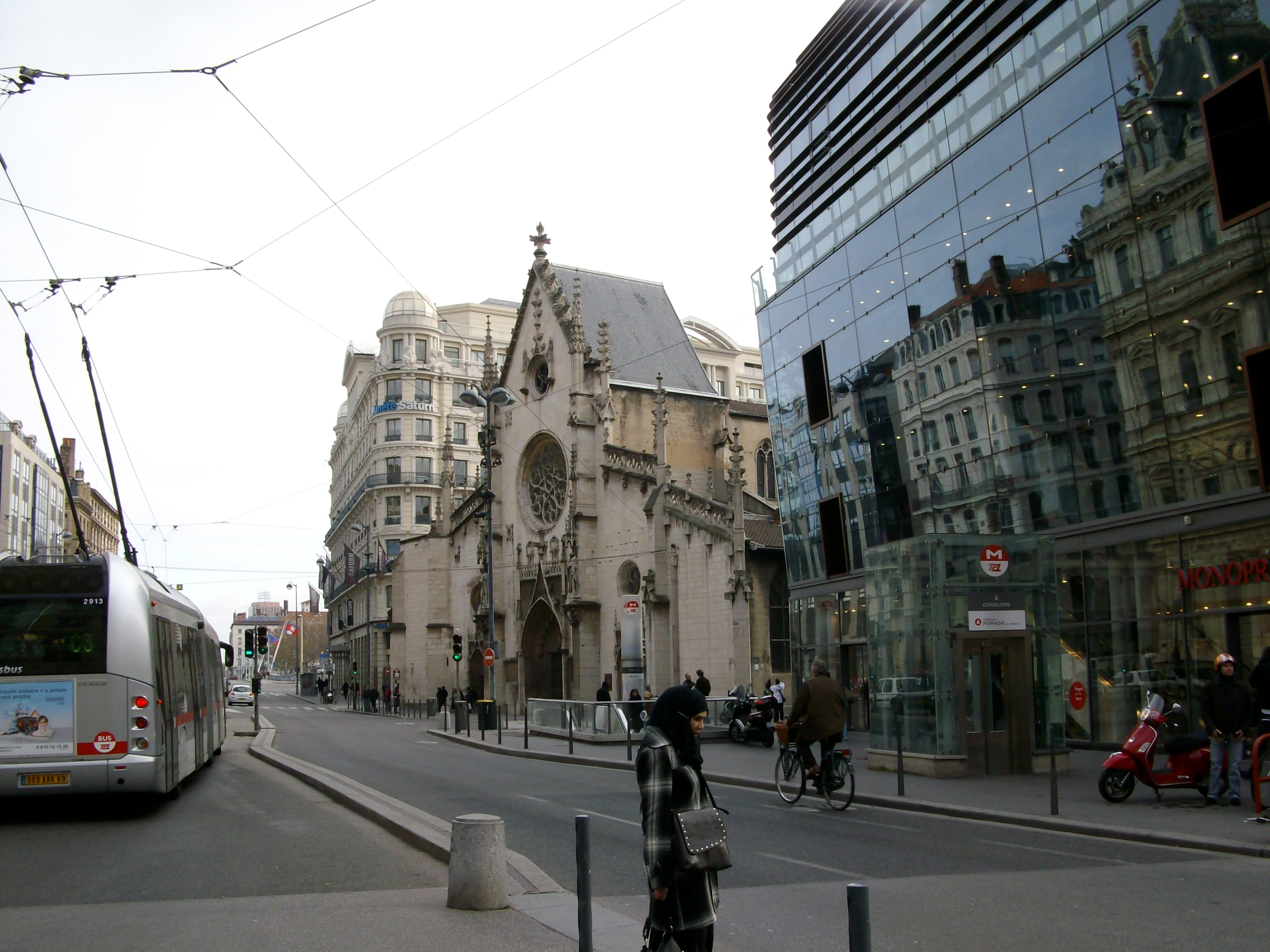 Église St Bonaventure beside Monoprix in Place des Cordeliers, Lyon.